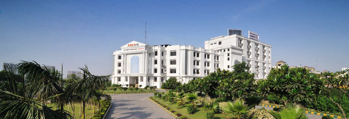 ABESIT Main Building